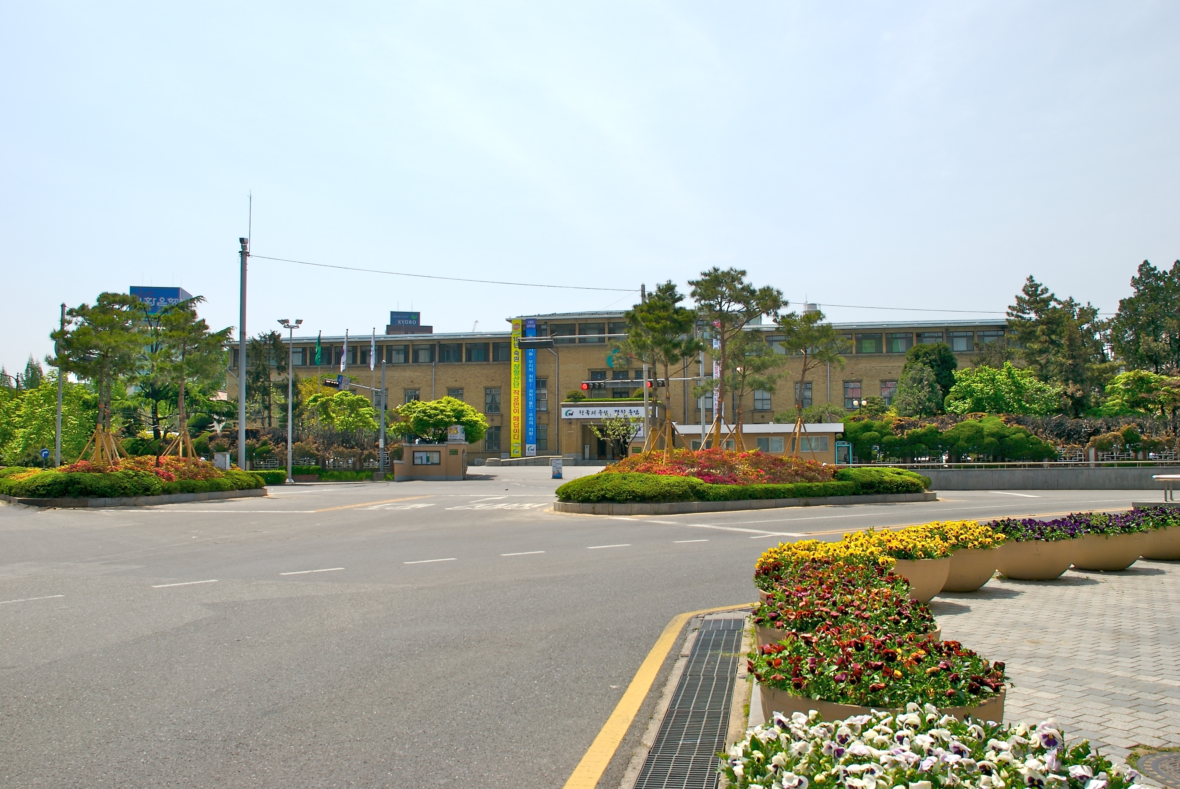 Government offices for the South Chungcheong province in South Korea. It is located within the metropolitan city of Daejeon, which is a separate administrative division from South Chungcheong province.